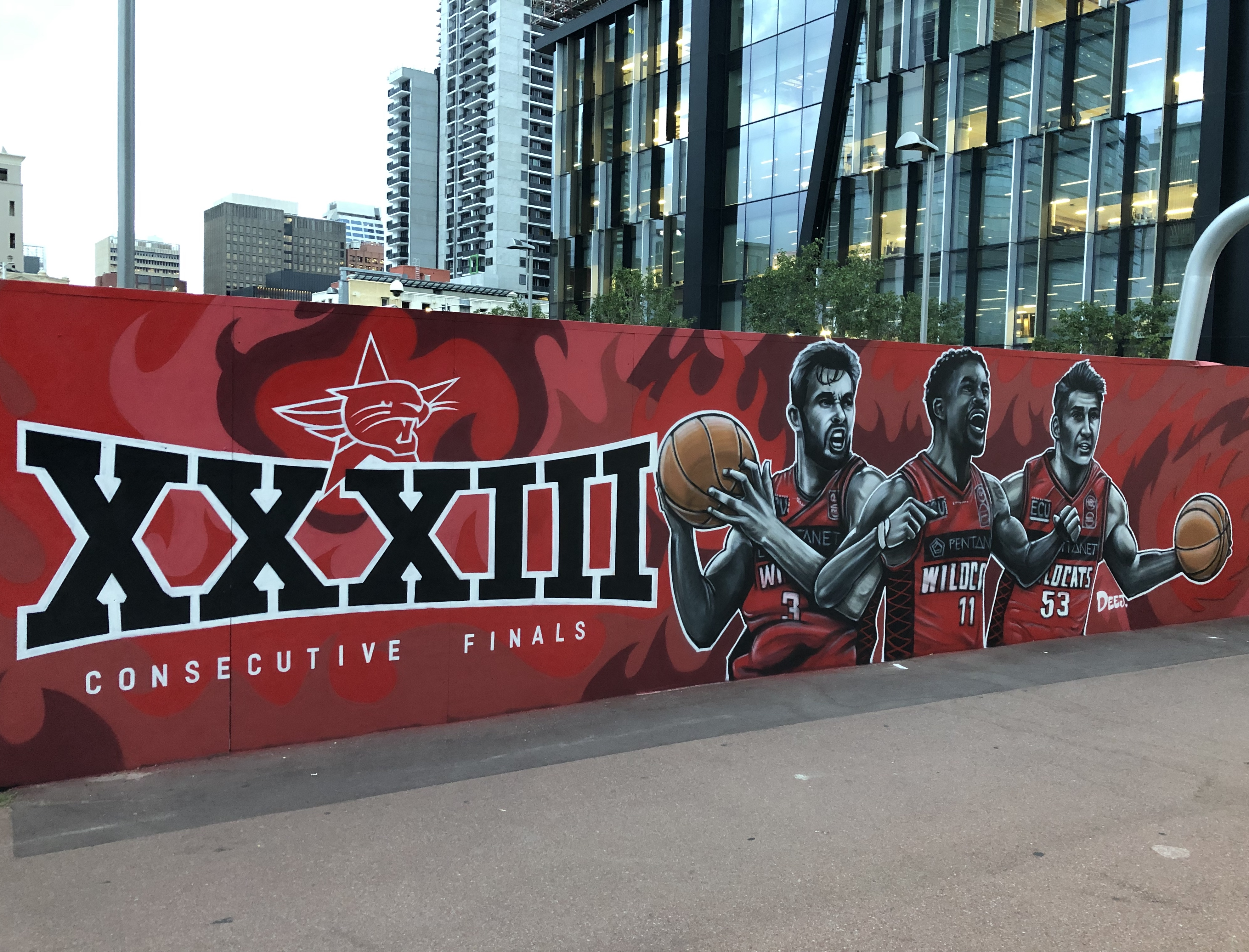 Perth Wildcats mural at King Square, opposite the Bus Port. Players featured: Nick Kay, Bryce Cotton and Damian Martin